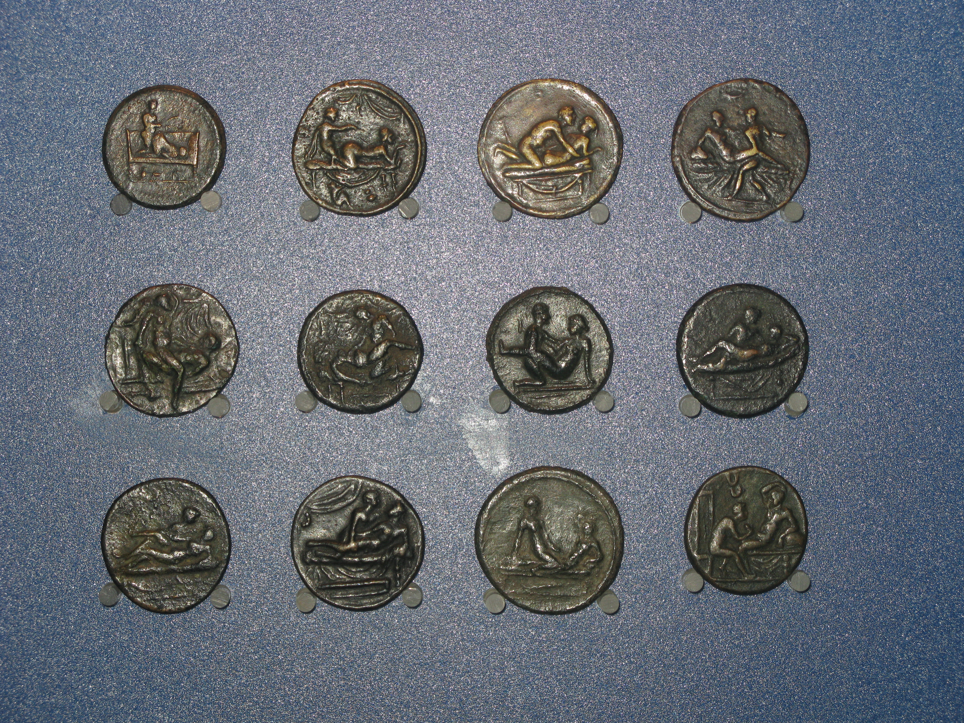 These tokens, featuring a number on one side, and an erotic scene on the other, are known as Spintriae. The Hunterian Museum has one of the largest known collections of these things, but for most of the museum\'s 200-year history they were considered too scandalous to exhibit! These are part of an exhibit created for the International Numismatic Congress held in Glasgow in 2009. This photo was taken as part of Britain Loves Wikipedia in February 2010 by John Faithfull.